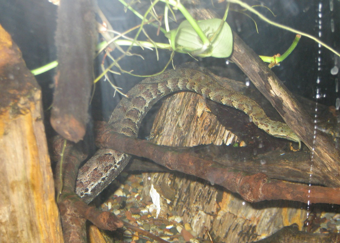 Photo of a Tentacled Snake taken at the Toledo Zoo.